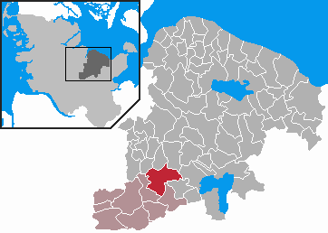 This map shows the area of the Gemeinde (municipality) Stolpe in the Kreis (district) Plön, Schleswig-Holstein, Germany.